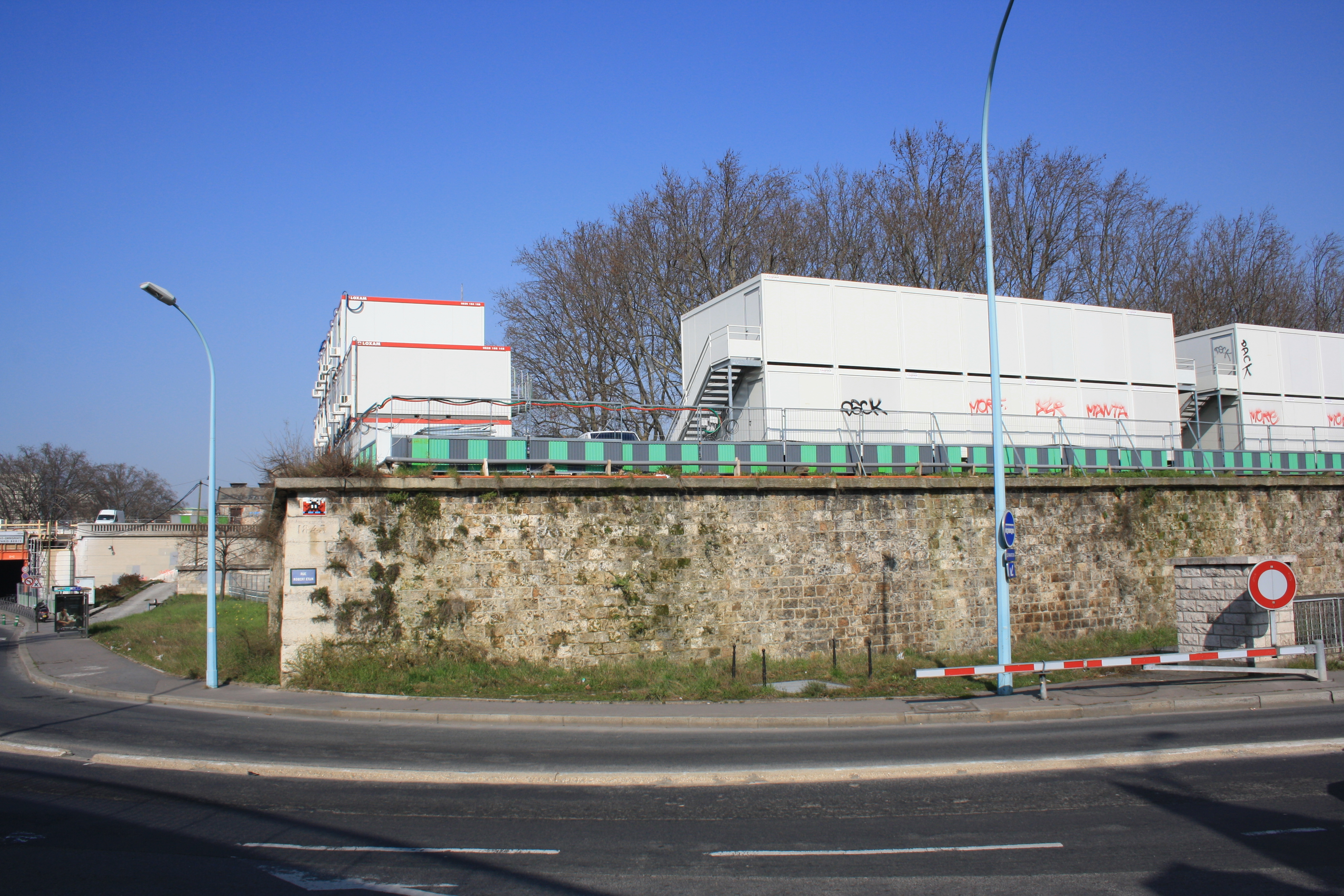 Rue Robert-Etlin and the wall of the Bastion n° 1 in Paris, France